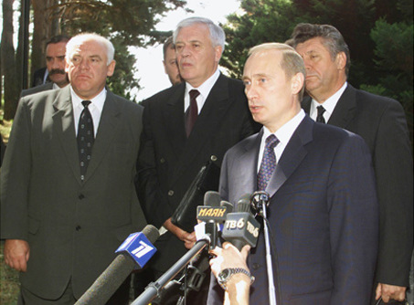 KISLOVODSK, THE STAVROPOL REGION. President Vladimir Putin addressing journalists following his meeting with regional leaders of the Southern Federal District.